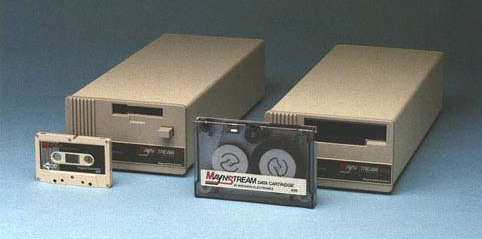 Maynstream